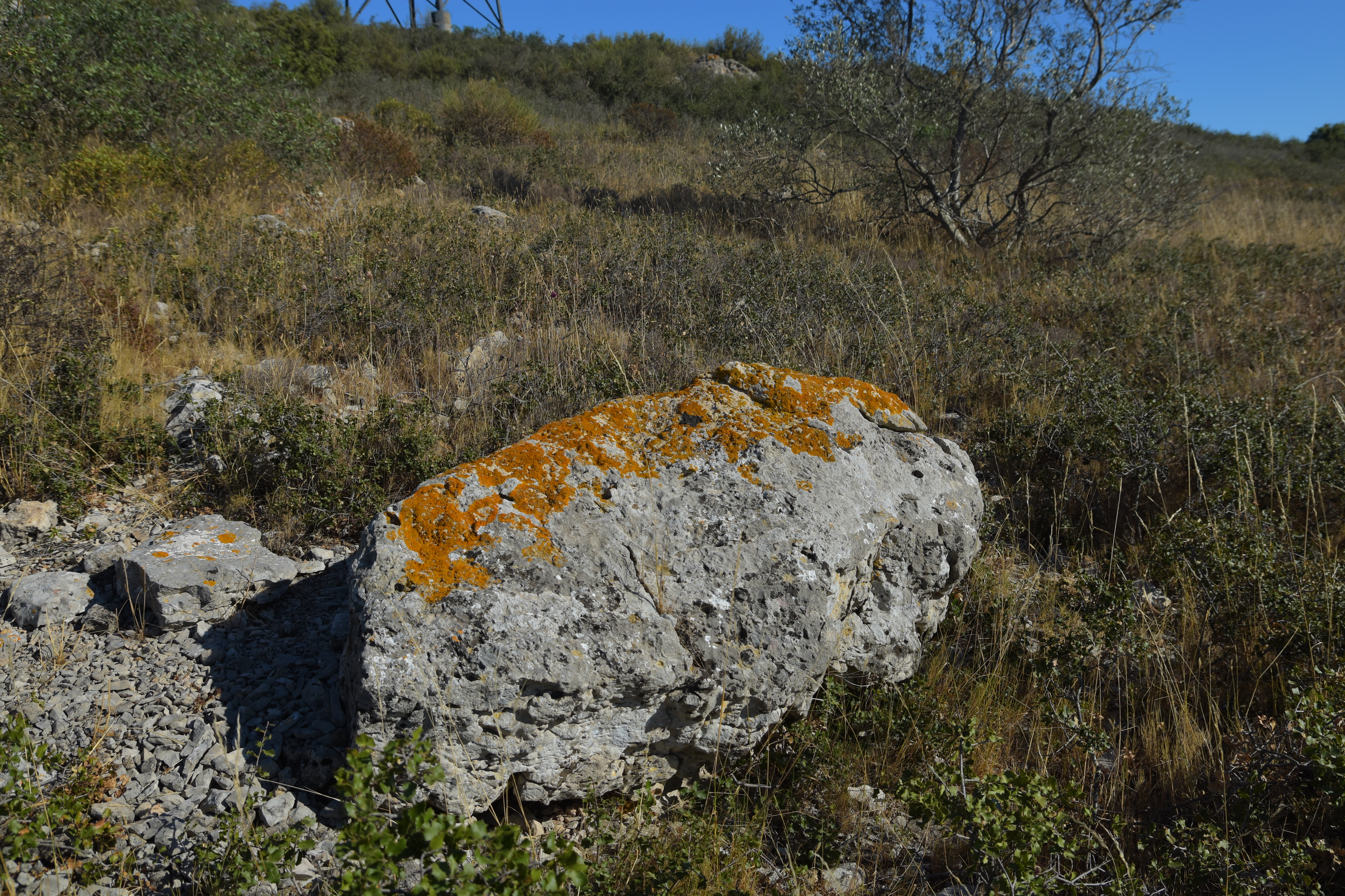 Menhir du Pioch de Roumanis, in Balaruc-les-Bains, Hérault, France